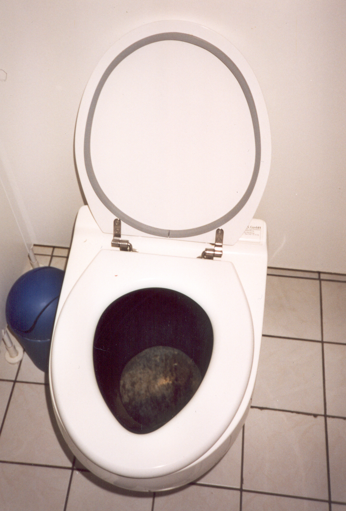 Photo by Wolfgang Berger, Hamburg